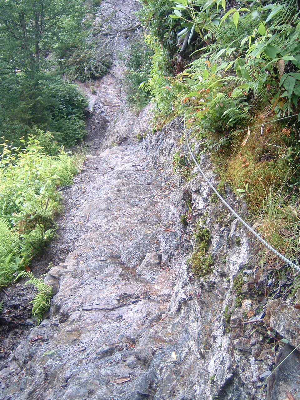 Certain portions of the Alum Cave Bluff Trail can be dangerous in inclimate weather.